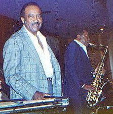 Harry "Sweets" Edison & Eddie Lockjaw Davis